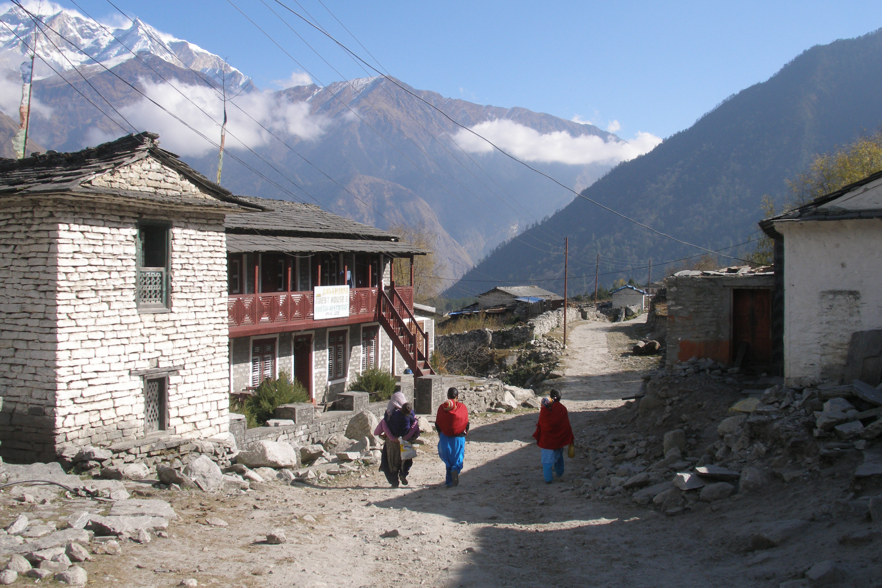 Homes in the village of Lete, Nepal.